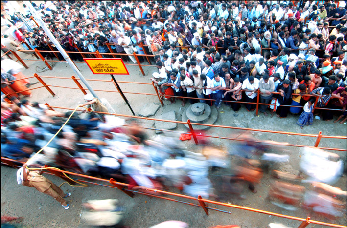 A scene of a crowd management in sabarimala ,,. the rush of huge crowd is the biggest tension of authorities …(the temple is situated in middle of a forest and surrounded by many hills….and no road ways for vehicles)